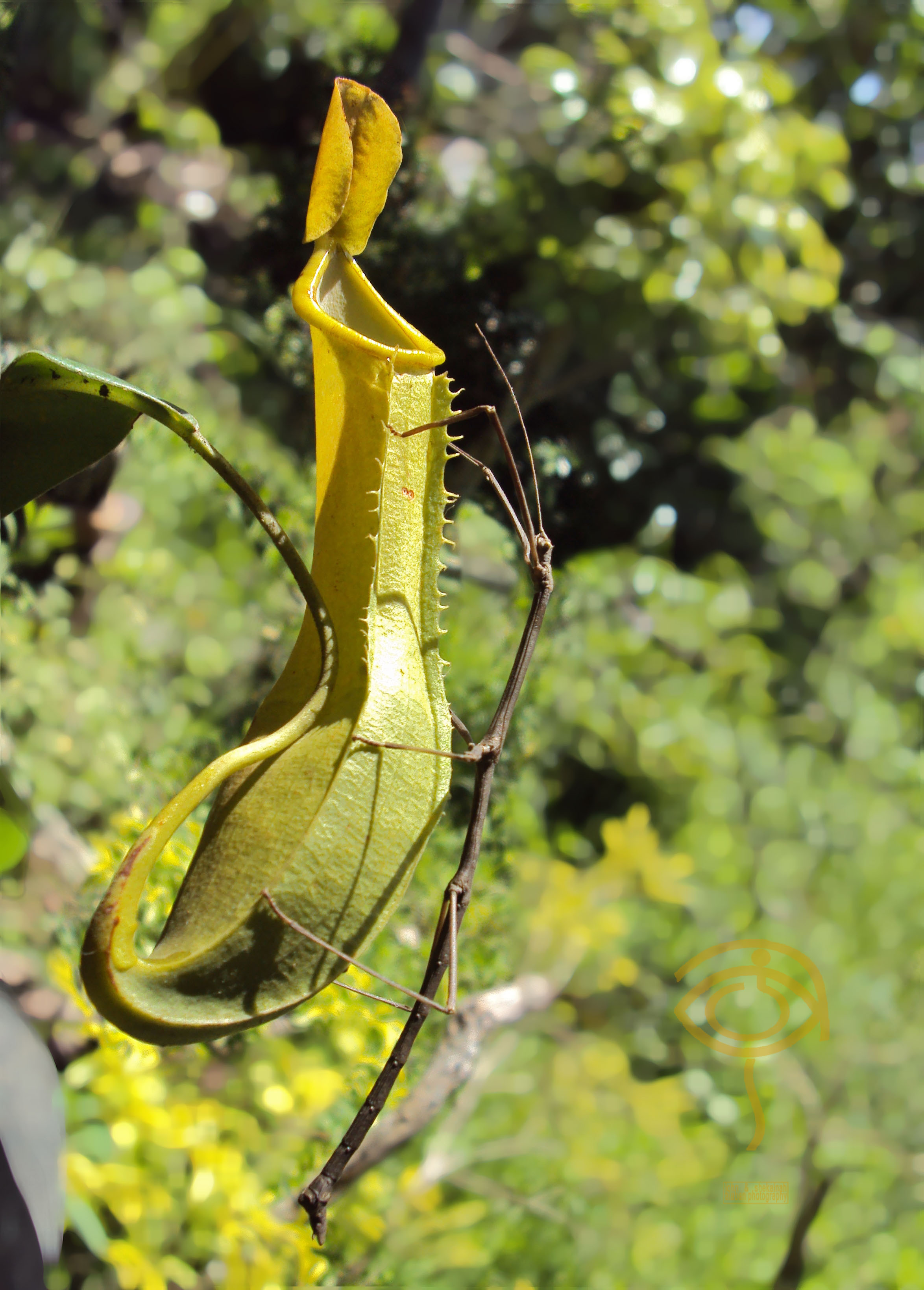 A stick insect attracted to the pitcher plant trap.